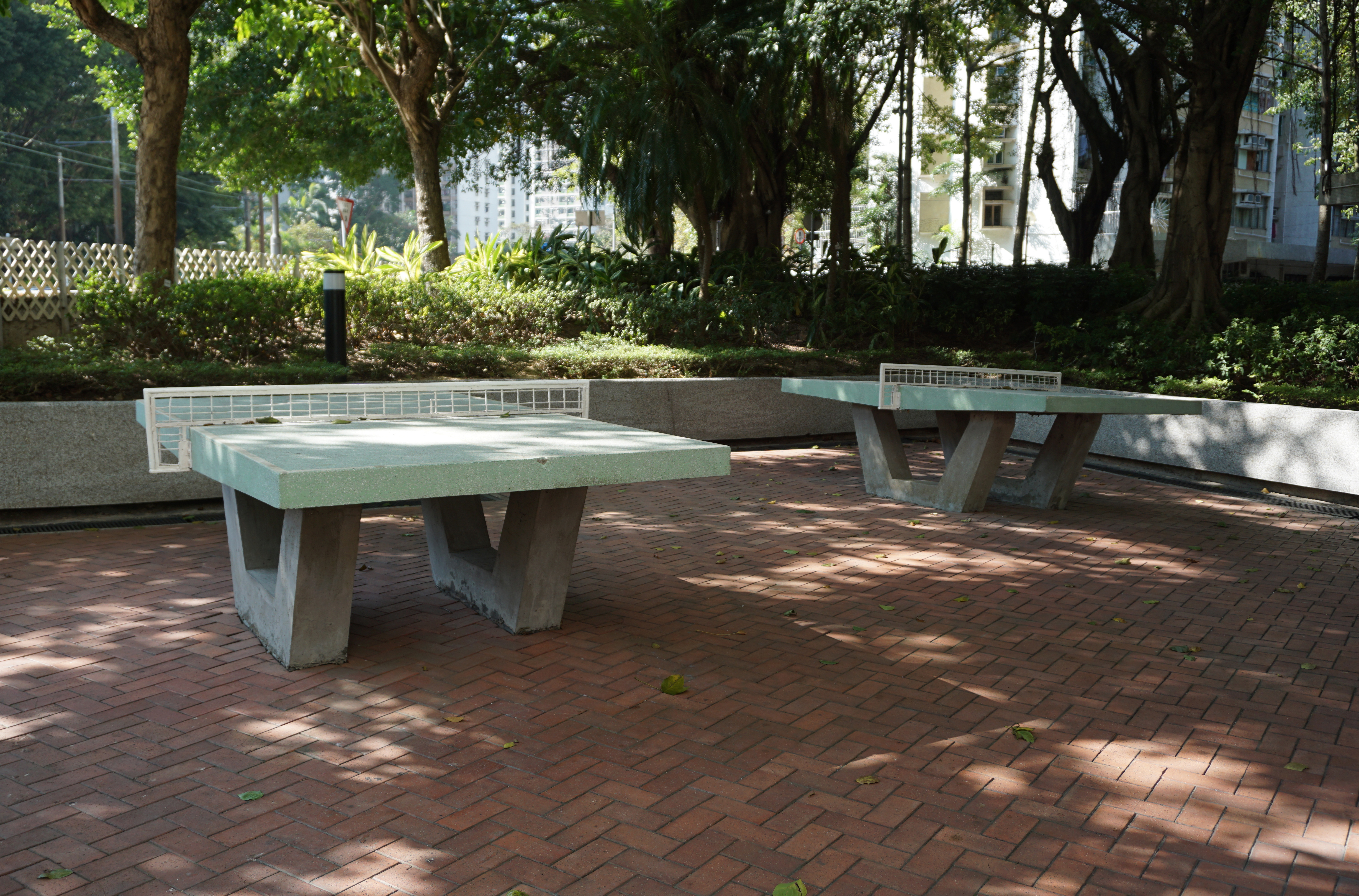 Siu Kwai Court in Tuen Mun, Hong Kong.